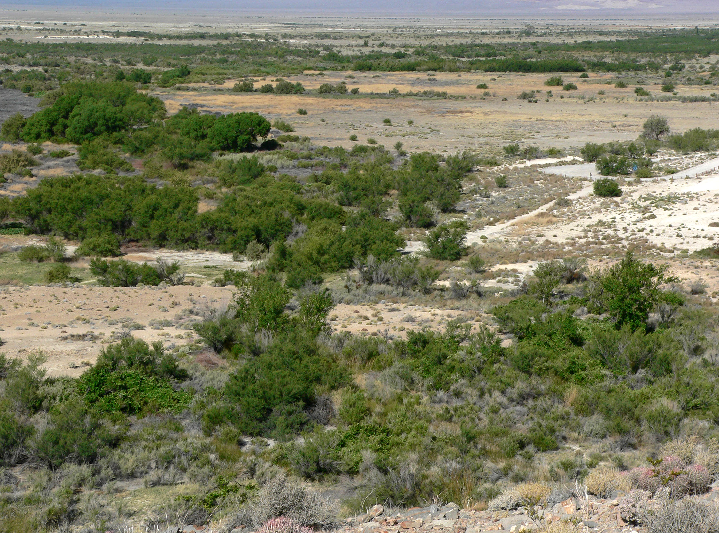 Overview of Points of Rocks Springs area, Ash Meadows National Wildlife Refuge, southern Nevada